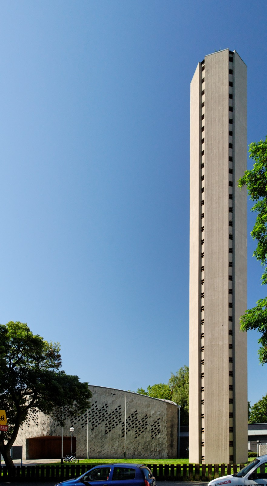 Holy Cross Church in Düsseldorf-Rath, Germany